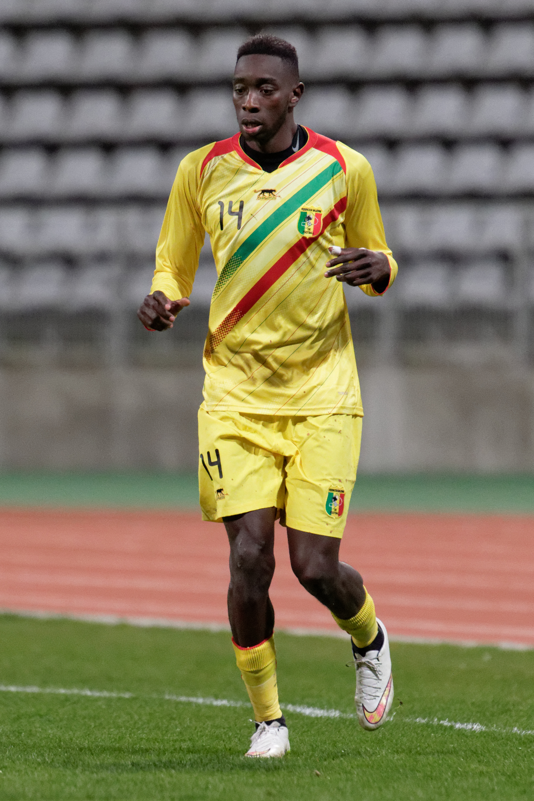 Mali vs Ghana, exhibition game at Paris, 31st March 2015.